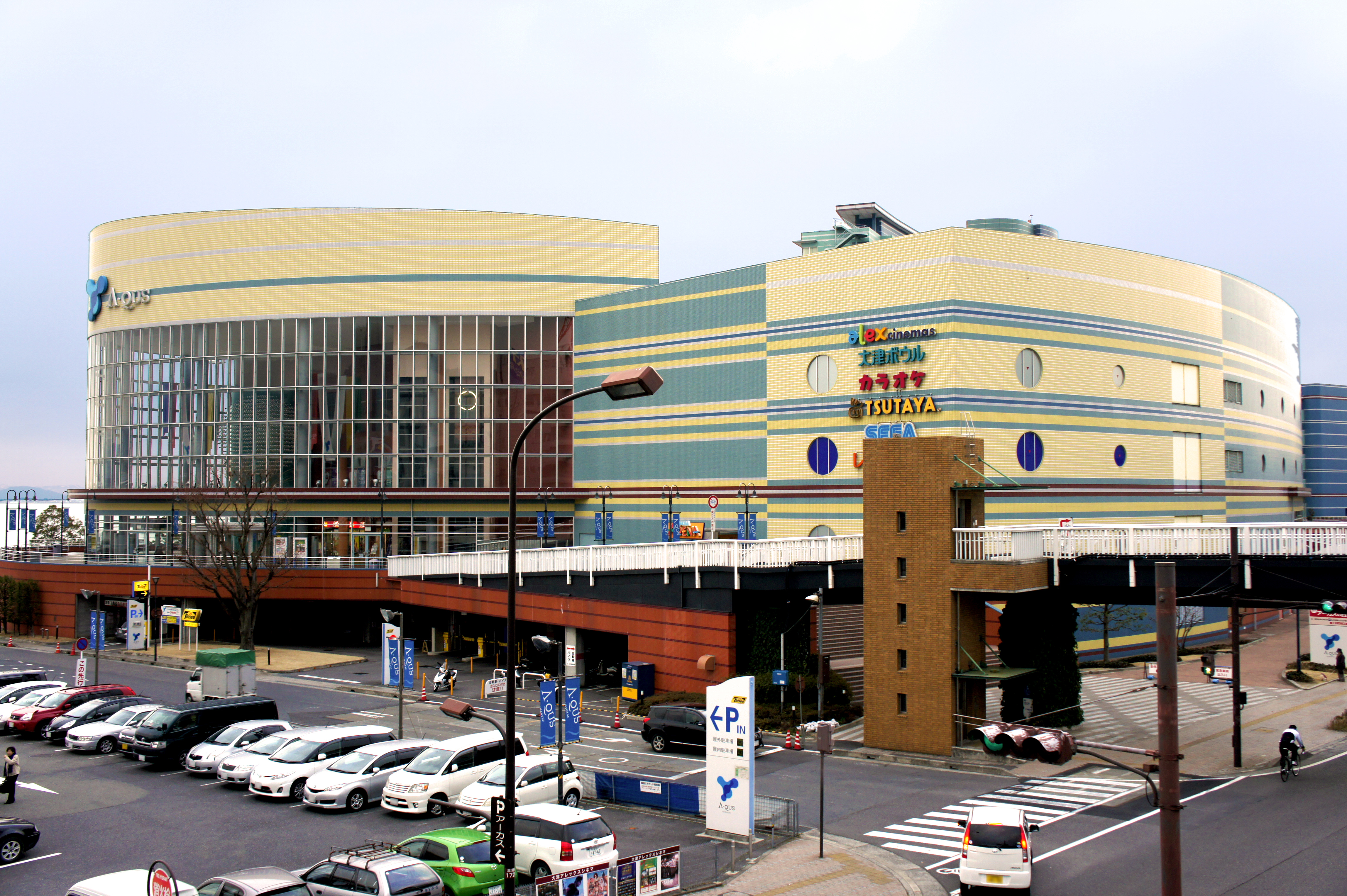 HAMAOTSU A-QUS, 2-1 Hamacho Otsu-City Shiga JAPAN.